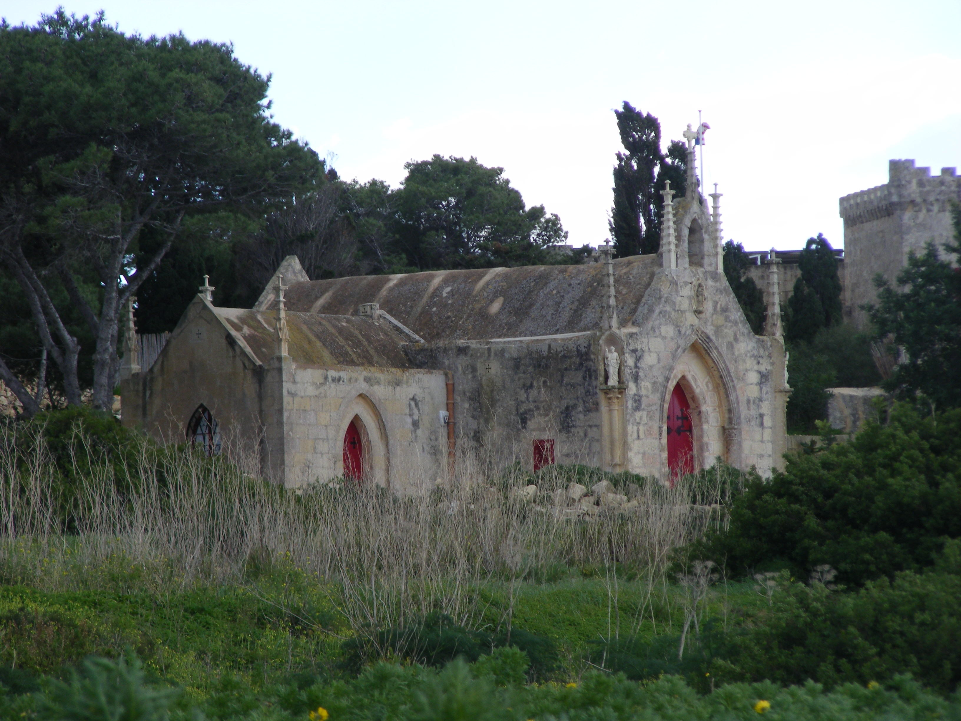 Chapel of St. Simon, Wardija, St. Paul's Bay, Malta